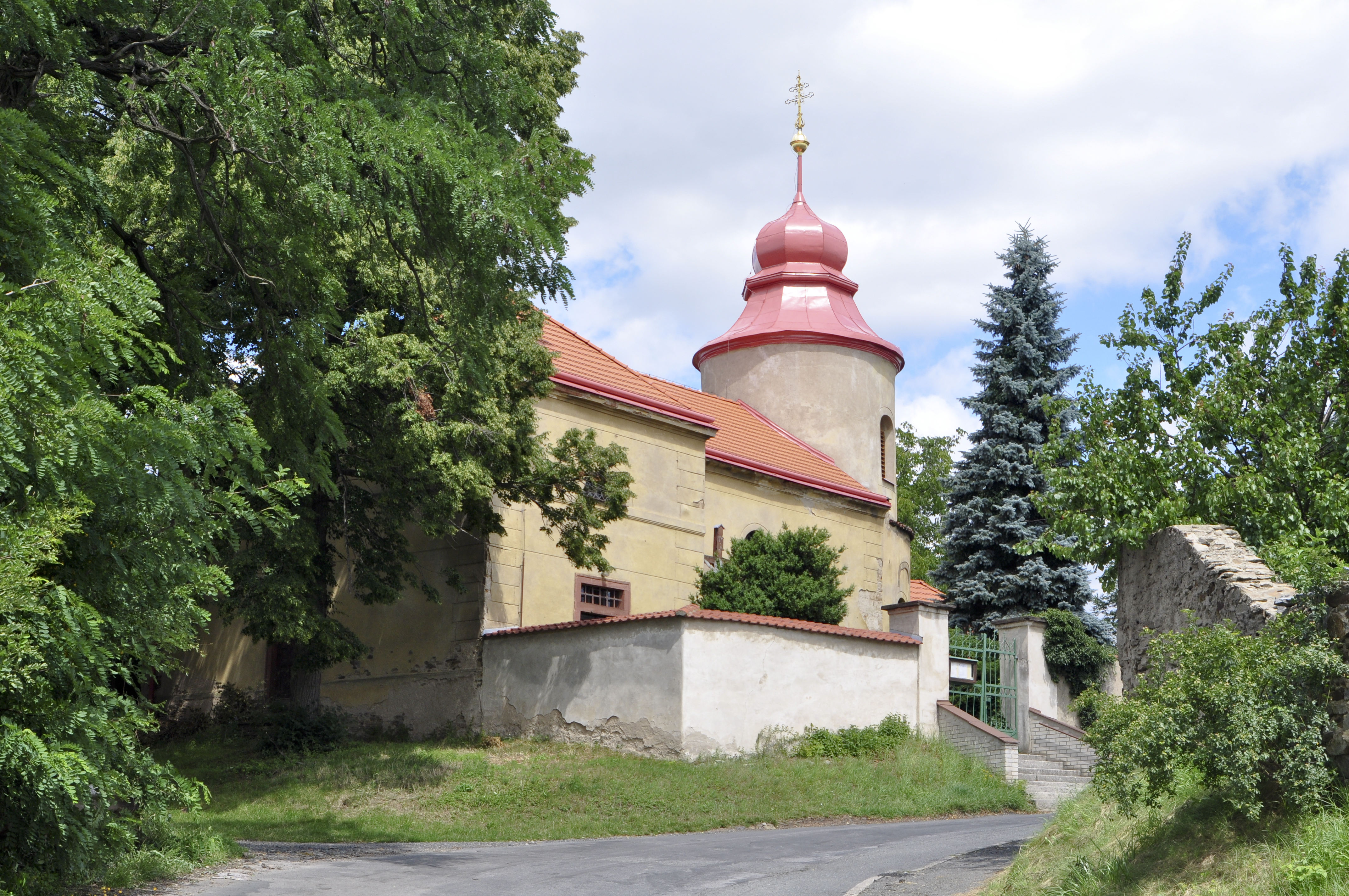 Jažlovice, Sain Wenceslaus church